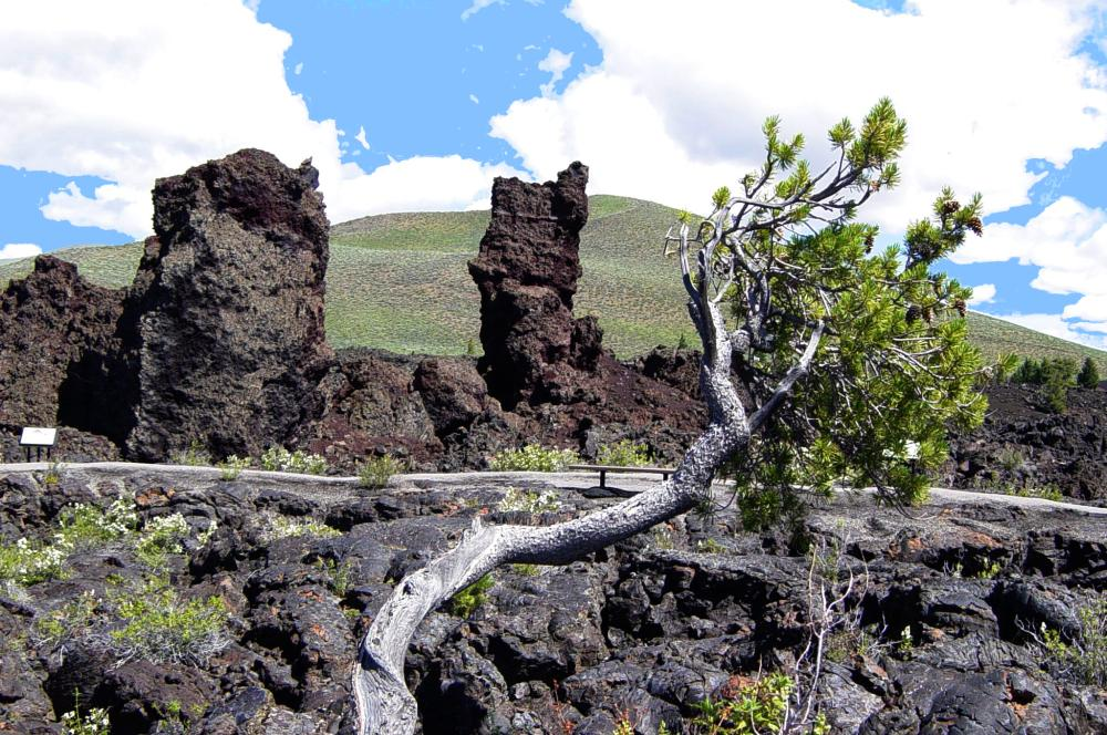 Craters of the Moon National Monument and Preserve, Cinder crags from North Crater on the North Crater Flow Captioned As {}